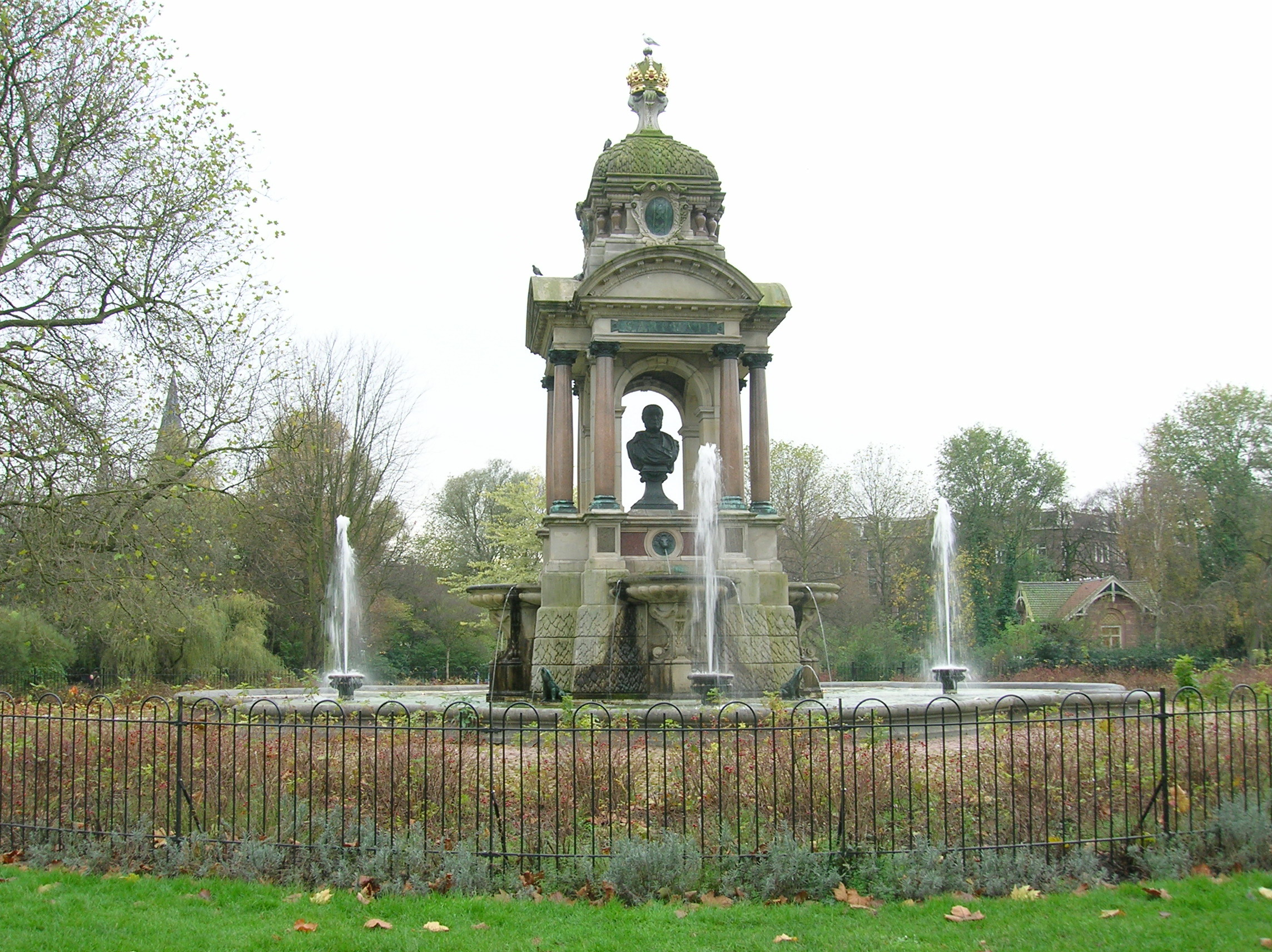 The monument/statue for Samuel Sarphati in Sarphatipark, Amsterdam, The Netherlands. Picture taken on the 23rd of november 2005 by SanderK.